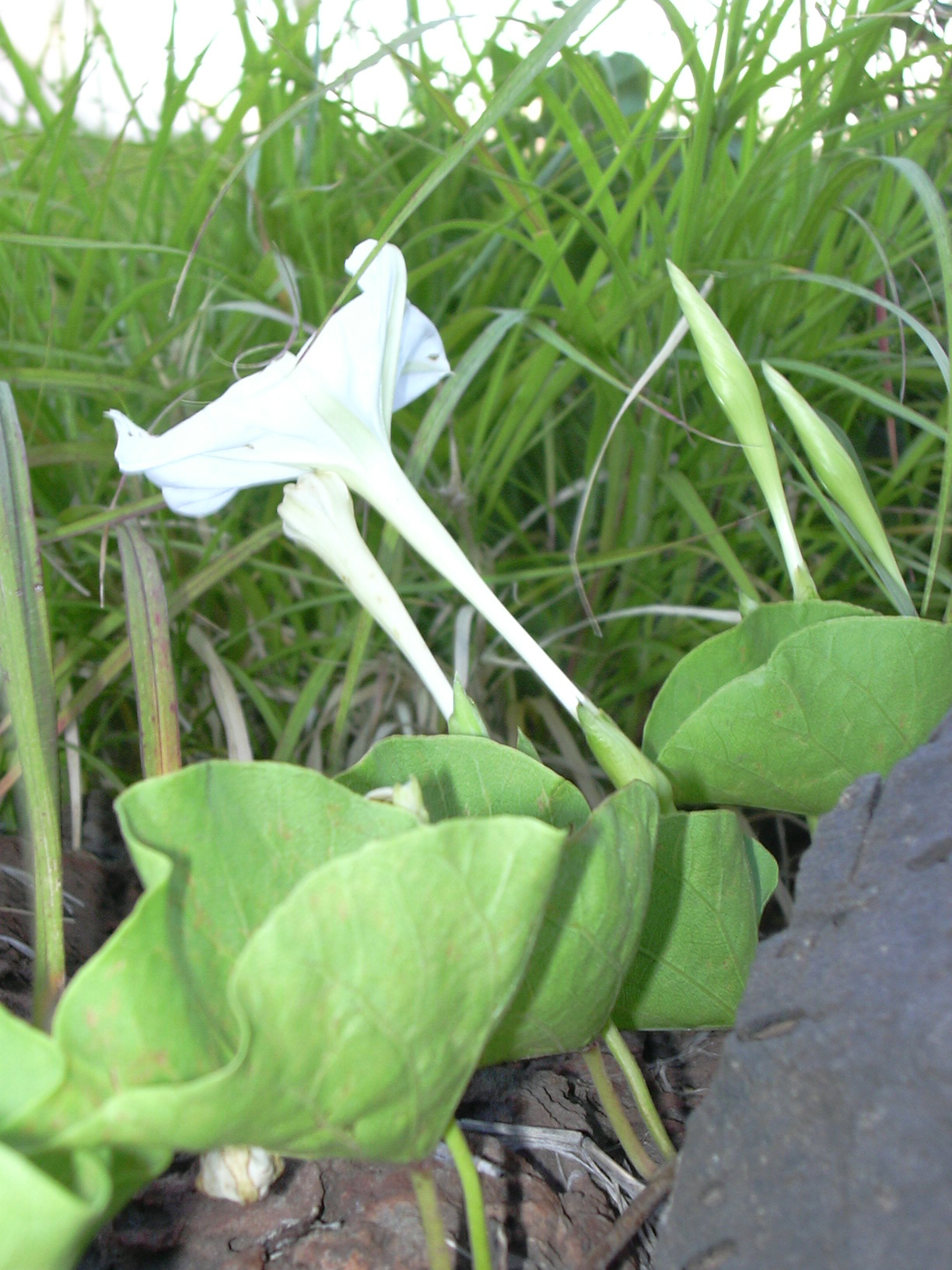 Ipomoea tuboides (flowers). Location: Kahoolawe, Honokanaia